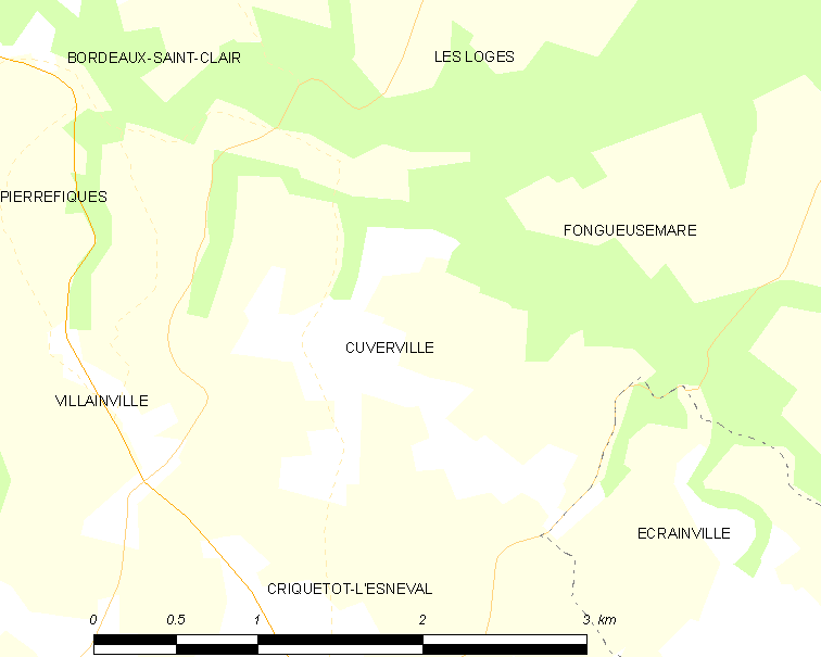 Map of French municipality Cuverville